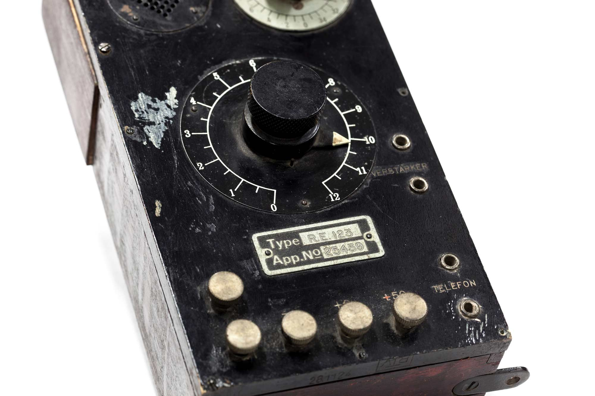 Radio receiver RE 123, made by Lorenz, 1923. The unit was a single-stage Audion-type tuned radio frequency circuit, but not a fully-functional radio. It had to be paired with similarly styled ZV24 input frequency selector and, if desired, an additional power amplifier unit [1]. Museum für Kommunikation, Frankfurt, Germany. Photo by Maximilian Schönherr with help from Lioba Nägele.